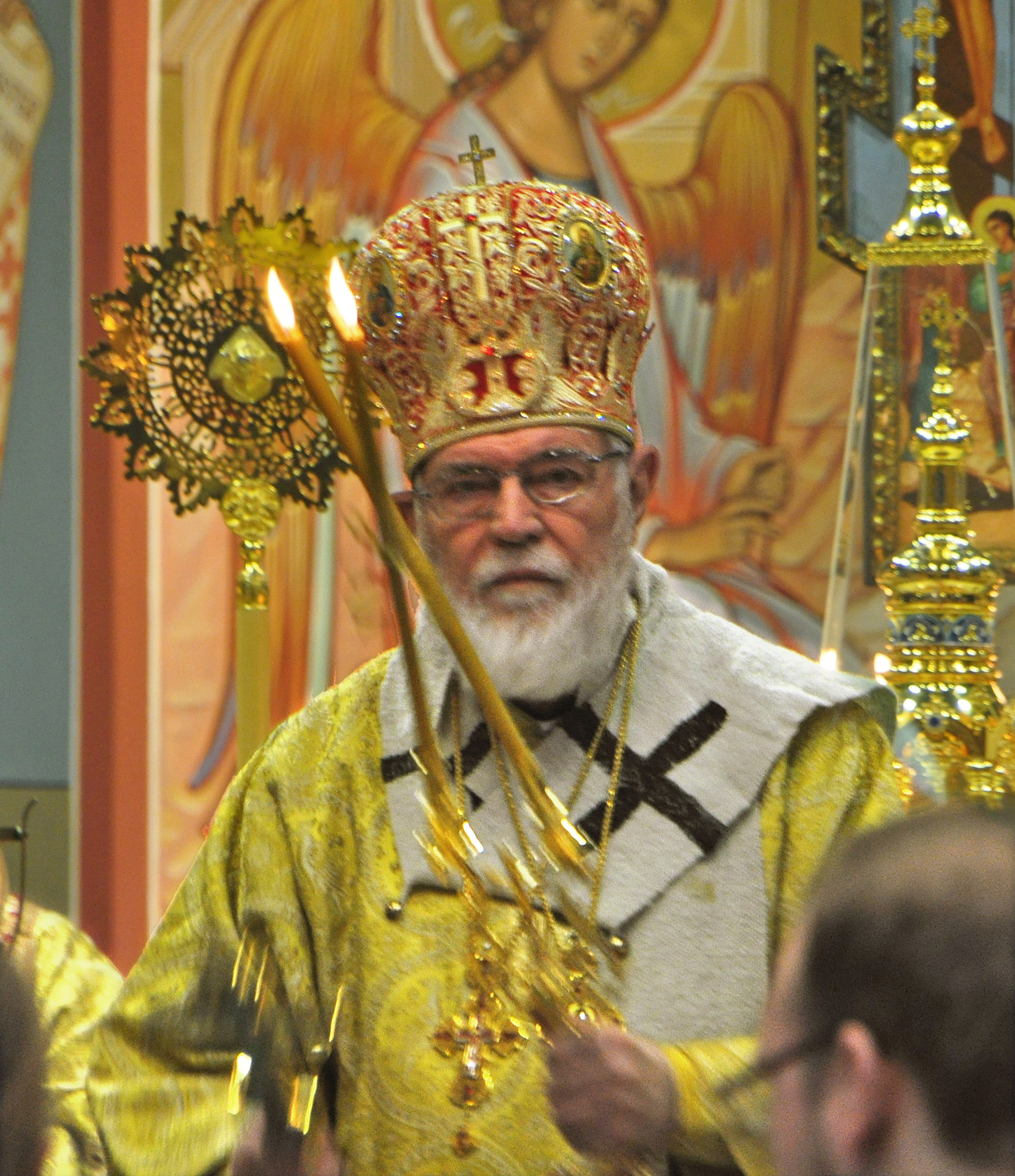 Archbishop Nathaniel